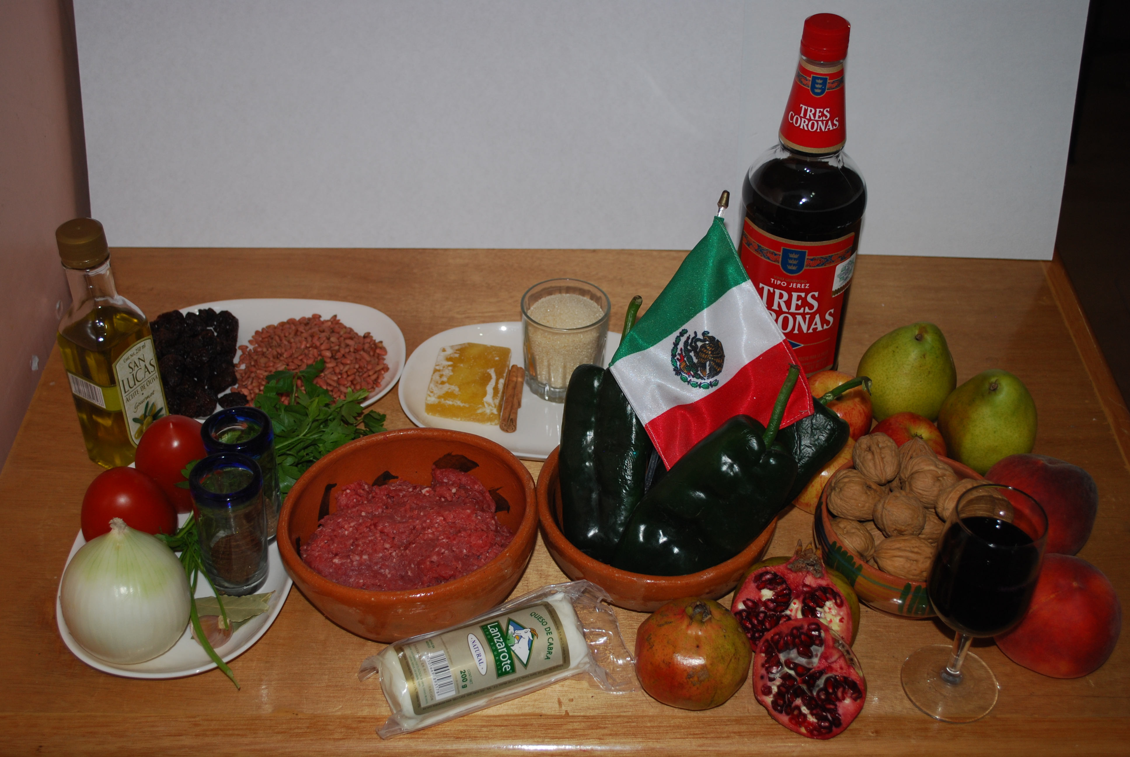 Ingredients for chile en nogada in the kitchen of AlejandroLinaresGarcia